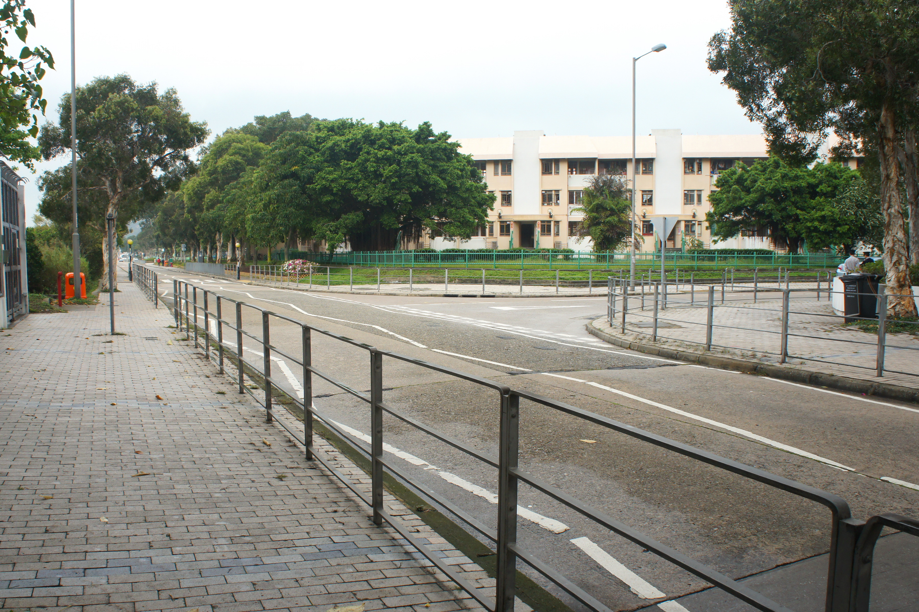 Tai O Road, Tai O, Lantau Island, Hong Kong. Lung Tin Estate is on the right. Buddhist Fat Ho Memorial College is on the left.